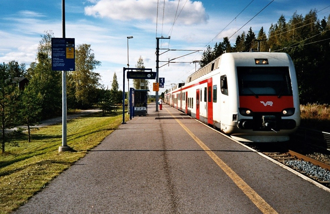 Nuppulinna railway halt to north with VR Class Sm4 train.